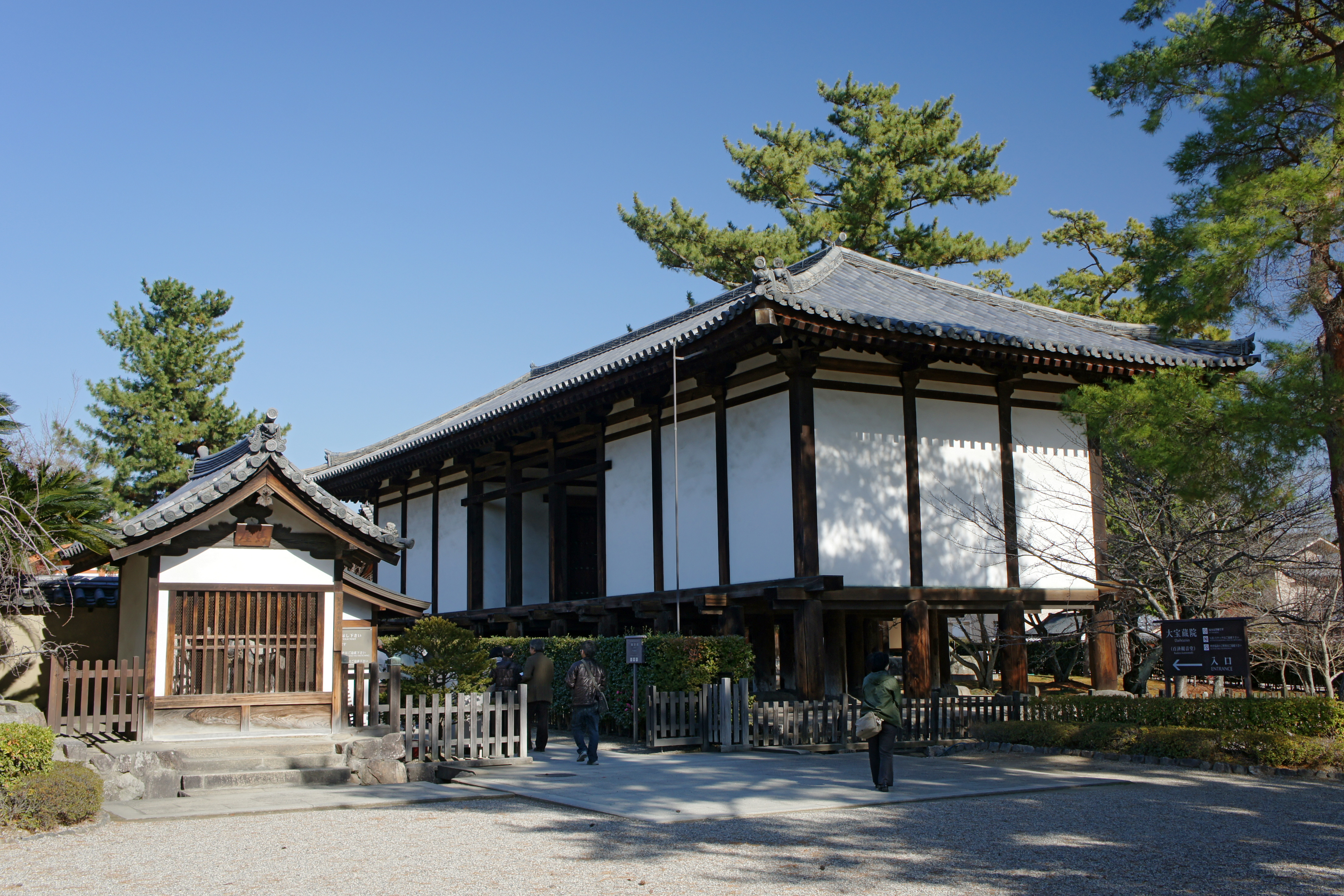 Kōfūzō of Hōryū-ji is a Japan's National Treasure. Hōryū-ji is a Buddhist temple in Ikaruga, Nara prefecture, Japan. It was registered as part of the UNESCO World Heritage Site "Buddhist Monuments in the Hōryū-ji Area".